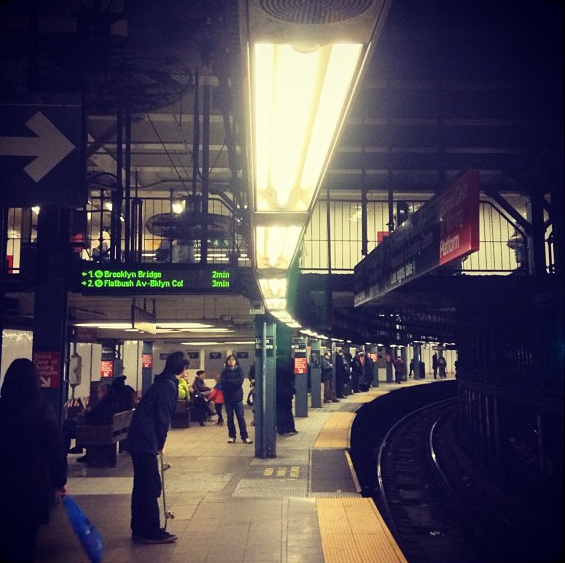 Subway in New York.